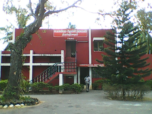 Main biilding in ARS THirupathisaram